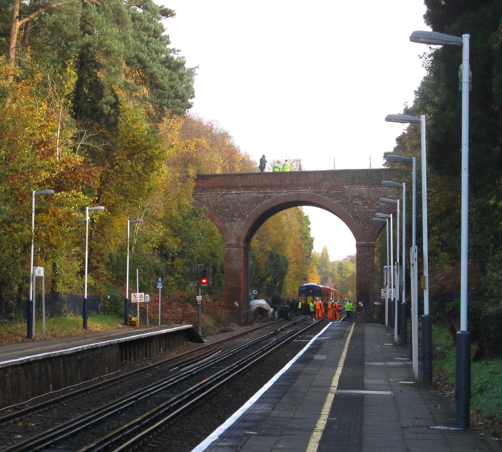 Aftermath of a train crash at Oxshott railway station, Surrey